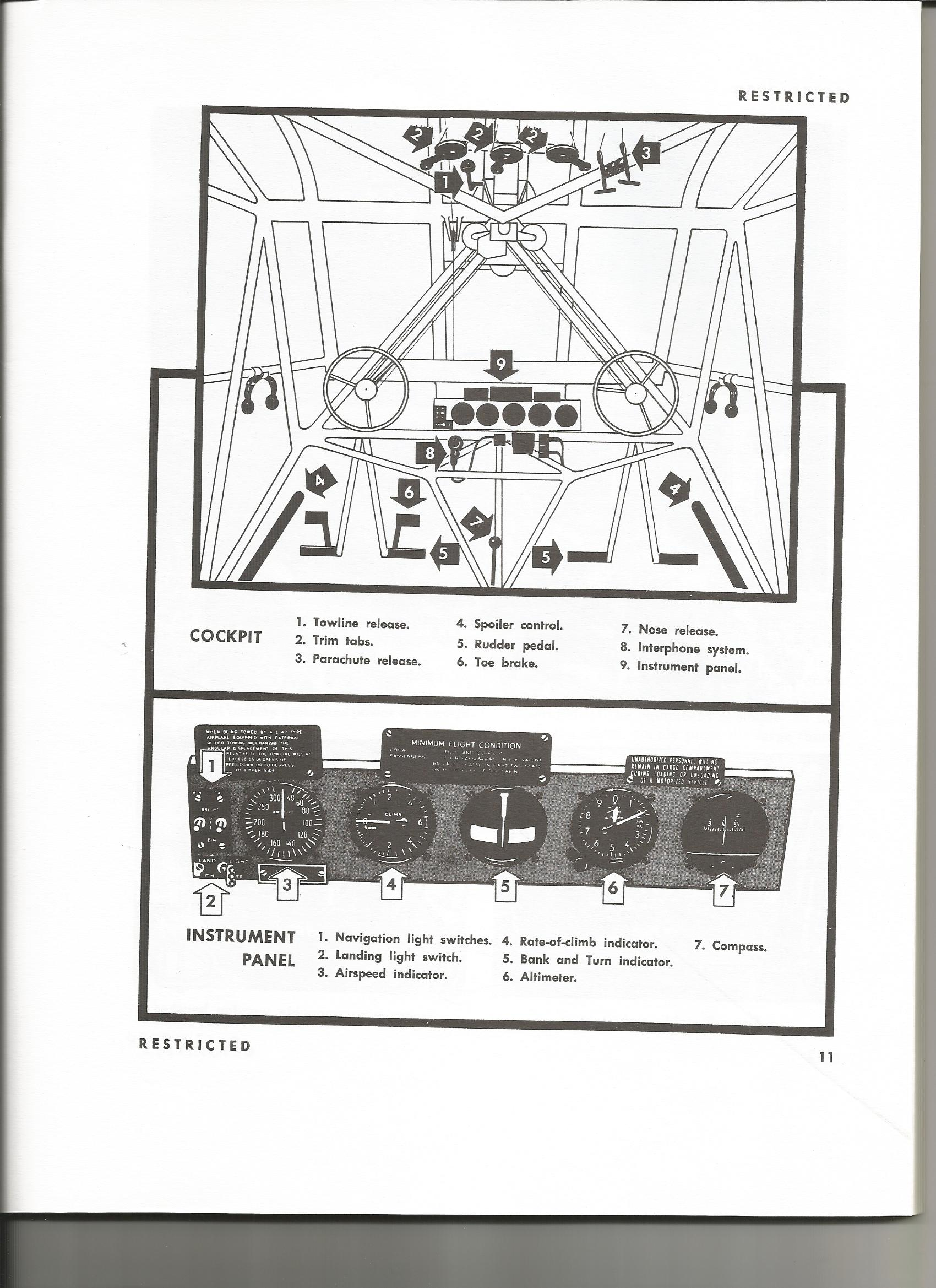 Pilot Training Manual for the CG-4A Glider